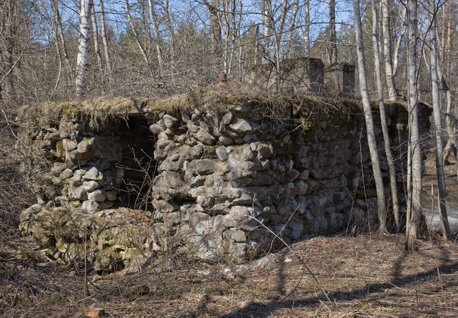 Remains of the water mill in Koskolovo village